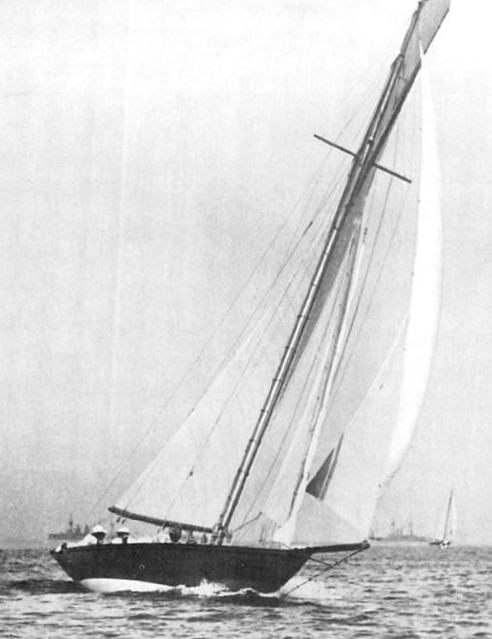 Cobweb at the 1908 Olympics